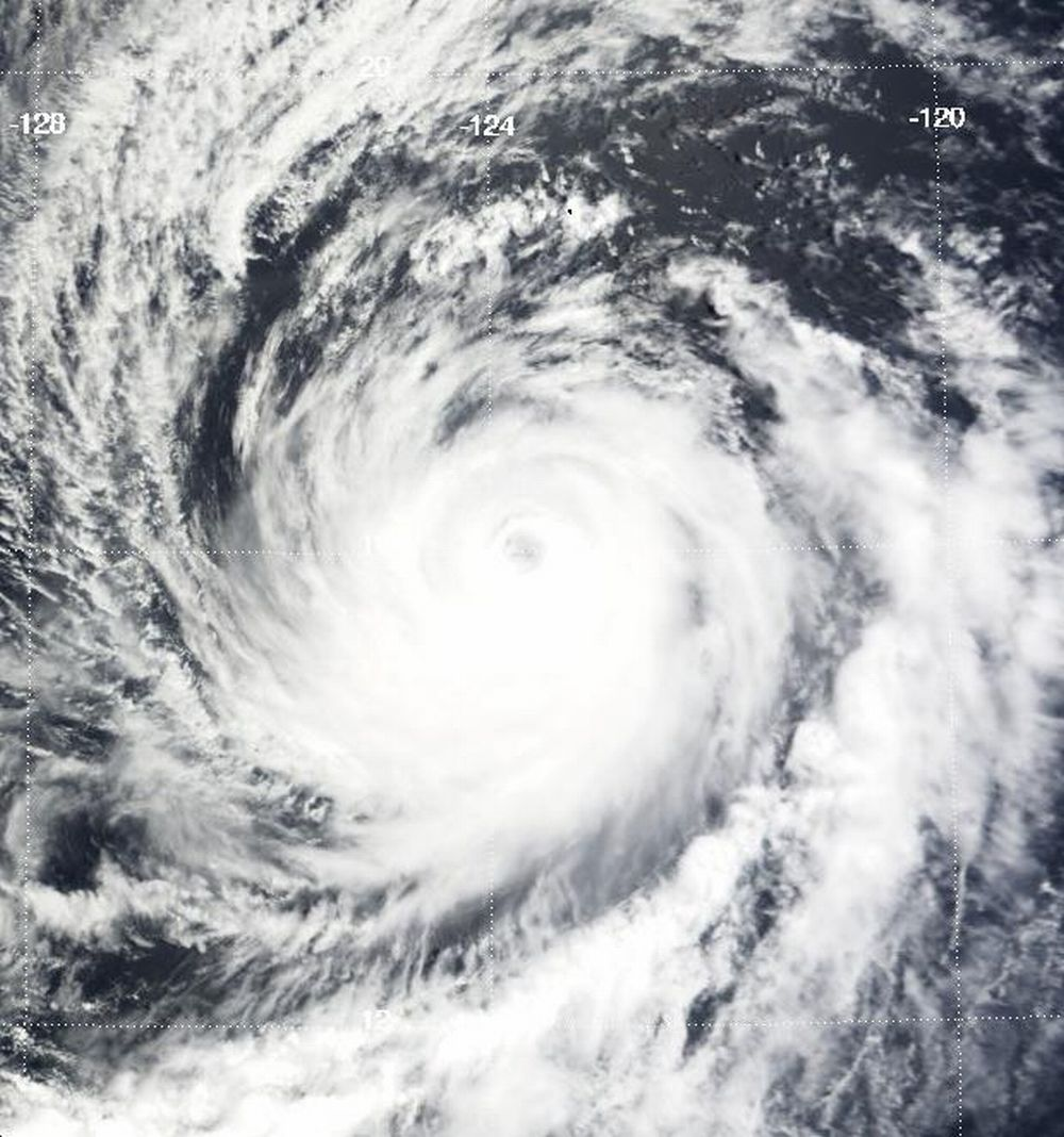 Hurricane Hernan (2008) as seen from Terra Satellite on 2008-08-09